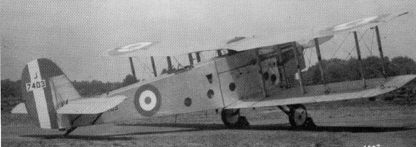 Bristol Berkeley J7403, mid-1925